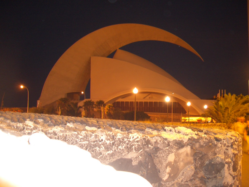 Description: Auditorium of Santa Cruz de Tenerife at night. Author: Usuario:Porao, with and OptioS Pentax digital camera.